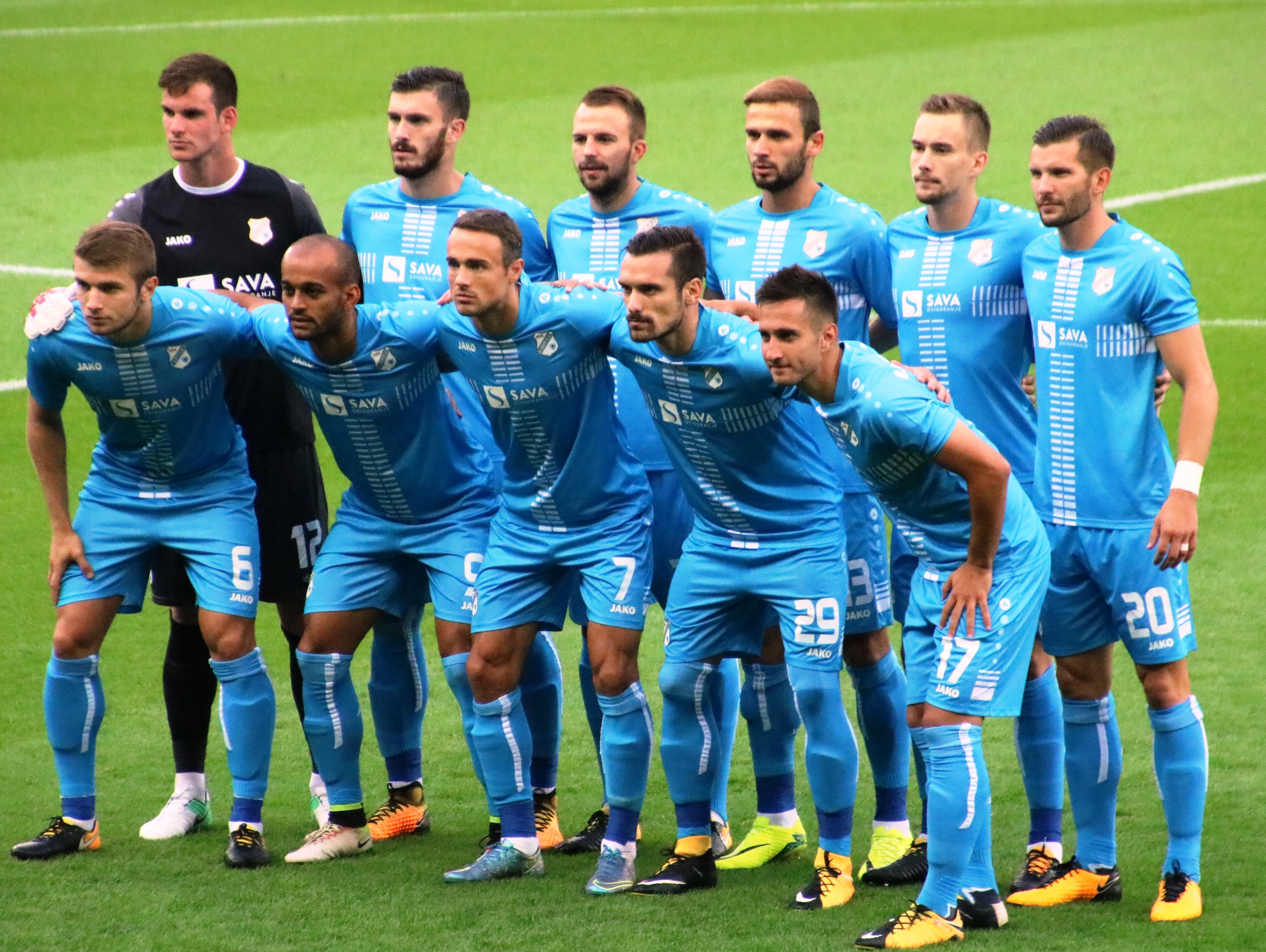 CL qualifier 3rd round